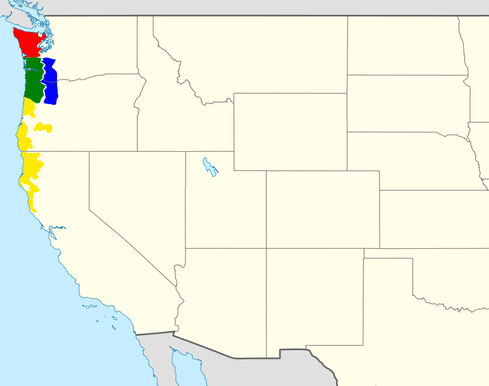 Red = R. olympicus Green = R. kezeri Blue = R. cascadae Yellow = R. variegatus